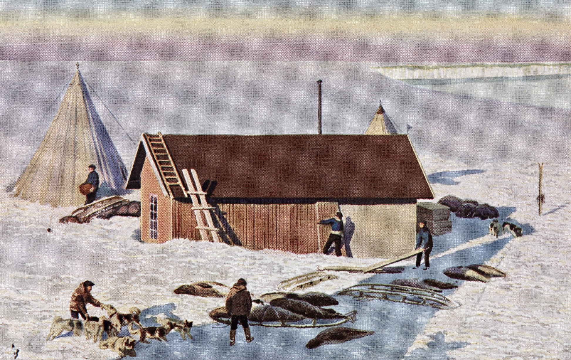 Beskrivelse / Description: Postkort / postcard. Dato / Date: januar 1911 Sted / Place: Antarktis, Framheim Kunstner / Artist: Andreas Bloch (1860-1917) Utgiver / Publisher: Mittet & Co., 1912 Digital kopi av original / Digital copy of original: postkort farge, trykt Eier / Owner Institution: Nasjonalbiblioteket / National Library of Norway Lenke / Link: Bildesignatur / Image Number: bldsa_NBRA0111